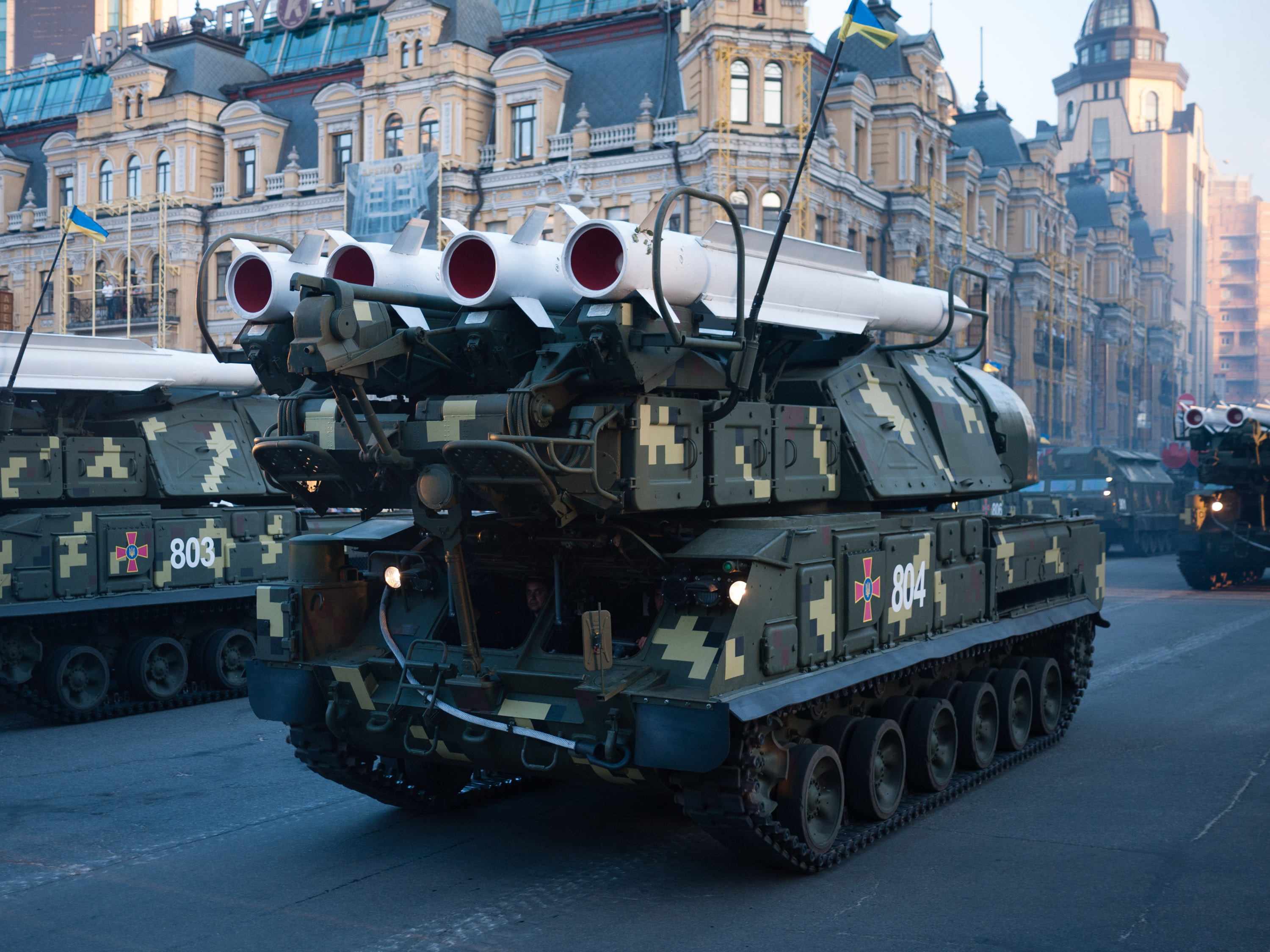 Buk-M1 surface-to-air missile system, rehearsal for the Independence Day military parade in Kyiv, 2018